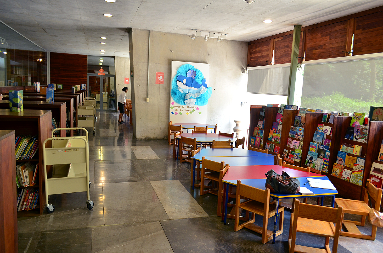 The library is located in downtown Delegación Cuauhtémoc at the Buenavista train station where the metro, suburban train, and metrobus meet. It is adorned by several sculptures by Mexican artists, including Gabriel Orozco's Ballena (Whale), prominently located at the centre of the building.